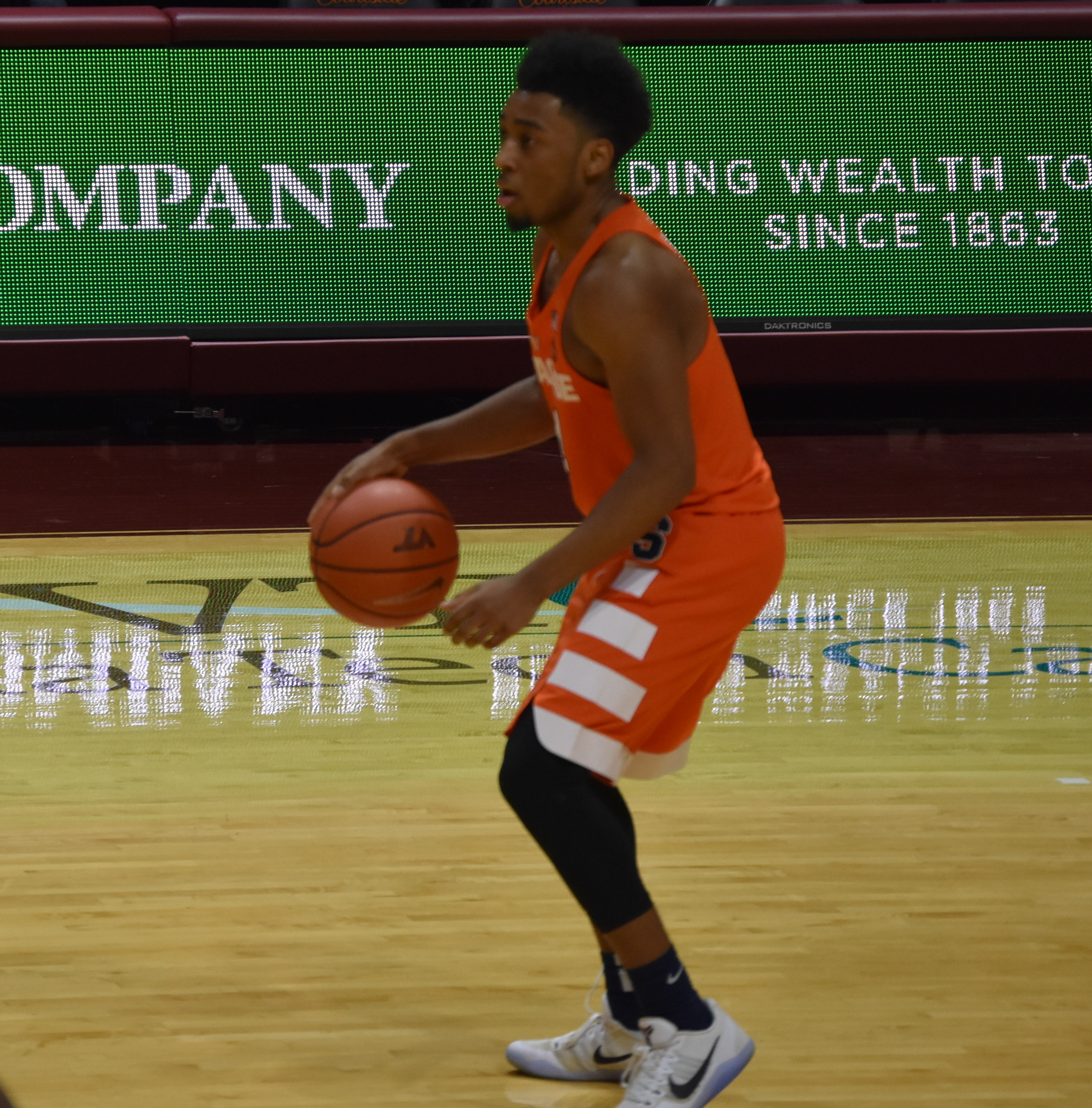 John Gillon works the ball against Ahmed Hill